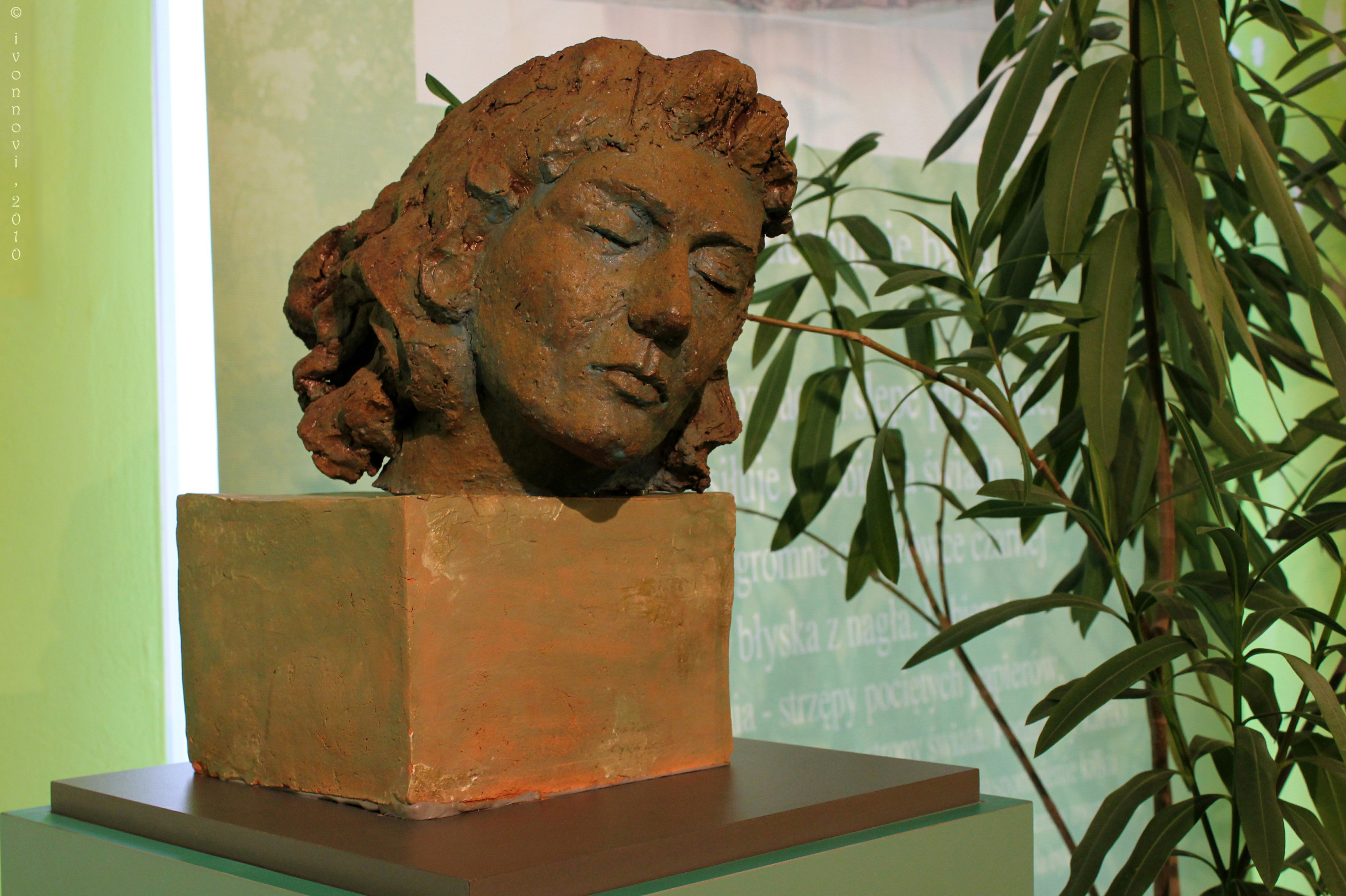 A sculpture of the head of Polish poet Halina Poświatowska's at her Poetry House-Museum of Halina Poświatowska in Częstochowa.